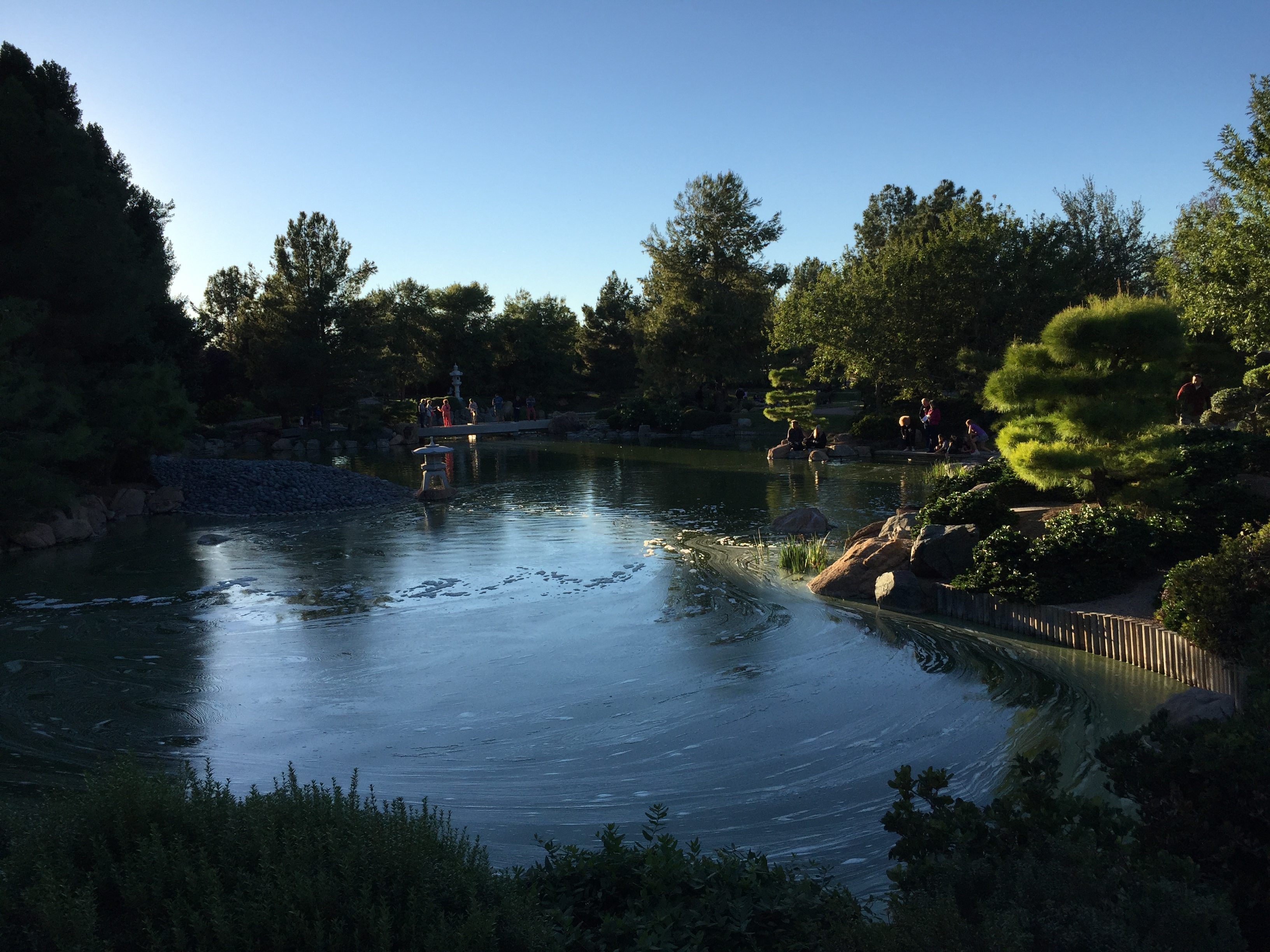 Pond at Ro Ho En